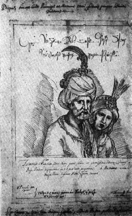 Teimuraz I and his wife. A sketch by the Catholic missionaire Don Cristoforo De Castelli